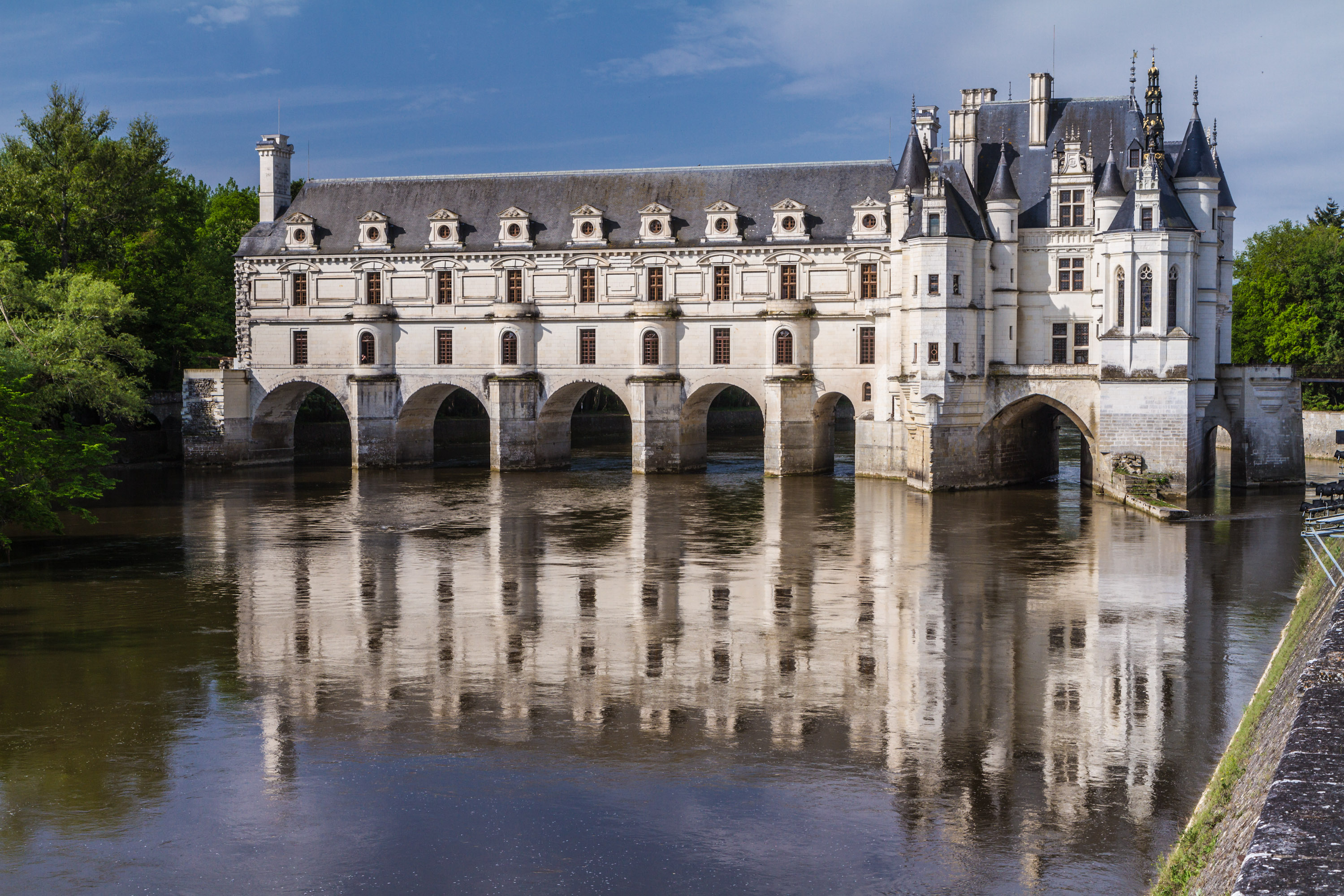 Chenonceau castle, on the Cher river.